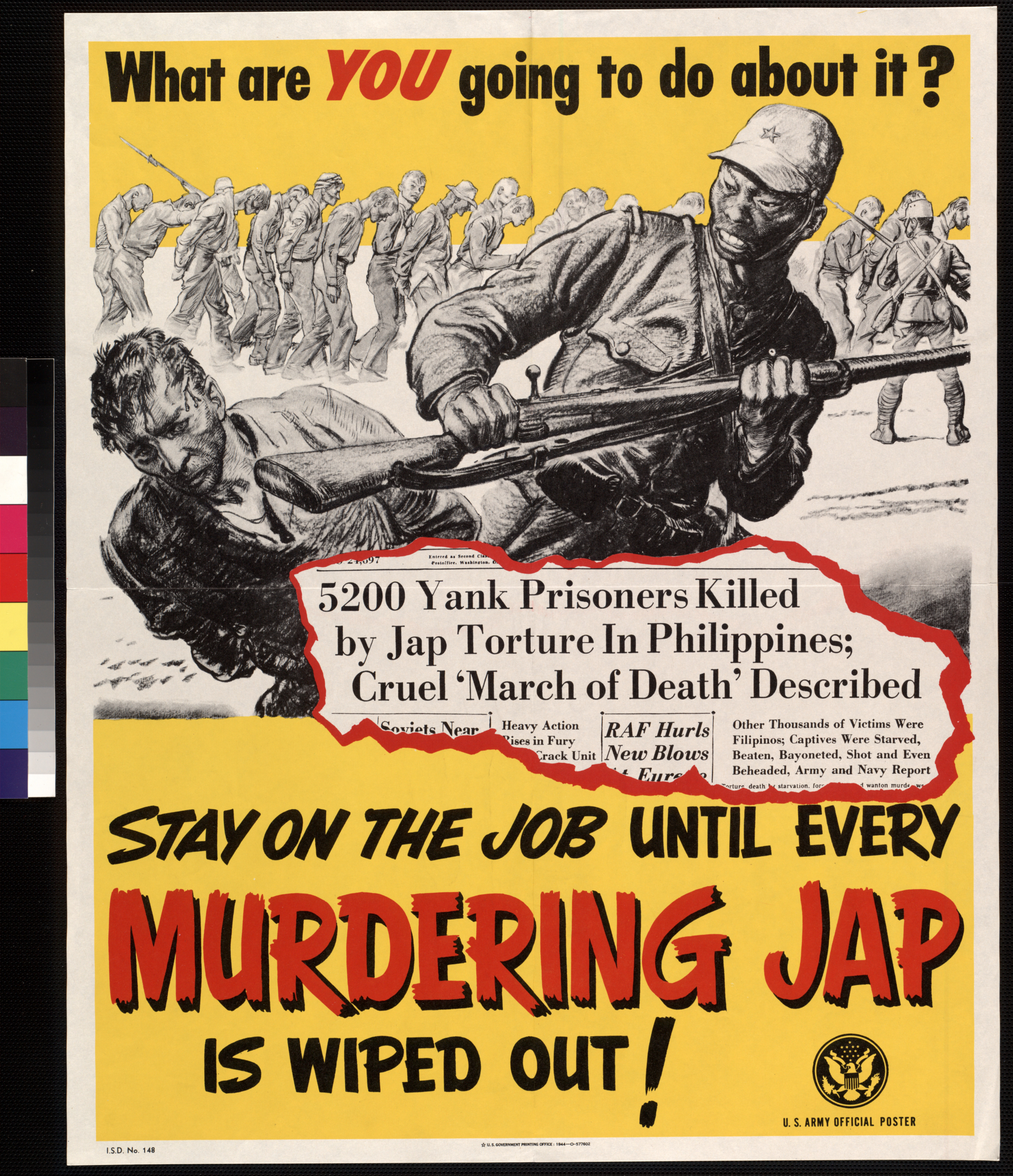 "Stay on the job until every murdering jap is wiped out!" World War II poster. Size: Height: 53 cm (20.8 in); Width: 44 cm (17.3 in) dimensions QS:P2048,53U174728;P2049,44U174728.[1] Notes: "I.S.D. No. 148" (bottom left), "☆ U. S. GOVERNMENT PRINTING OFFICE: 1944—O–577602" (bottom center), "U.S. ARMY OFFICIAL POSTER" (bottom right)